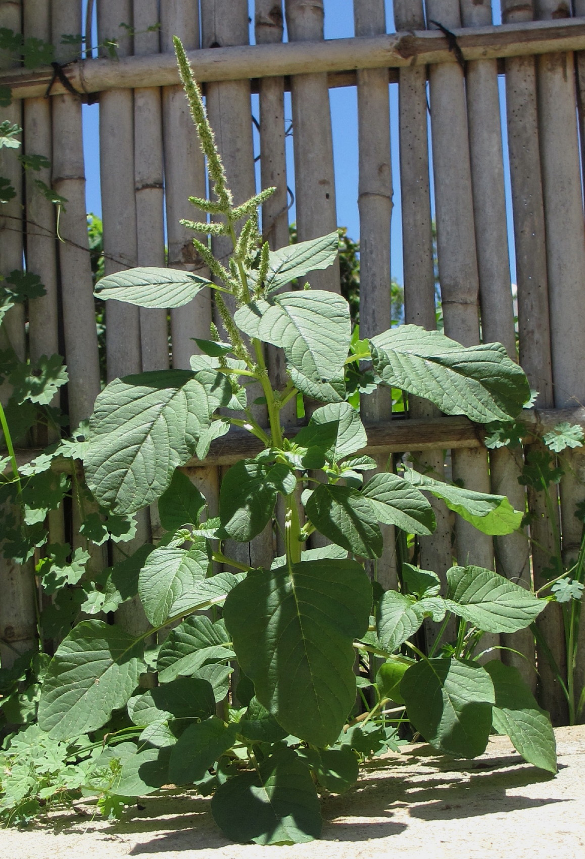 A common weed and a much used wild leaf vegetable in the tropics. Very nutritious, rich in Vitamin C, folate, carotene, iron and calcium.